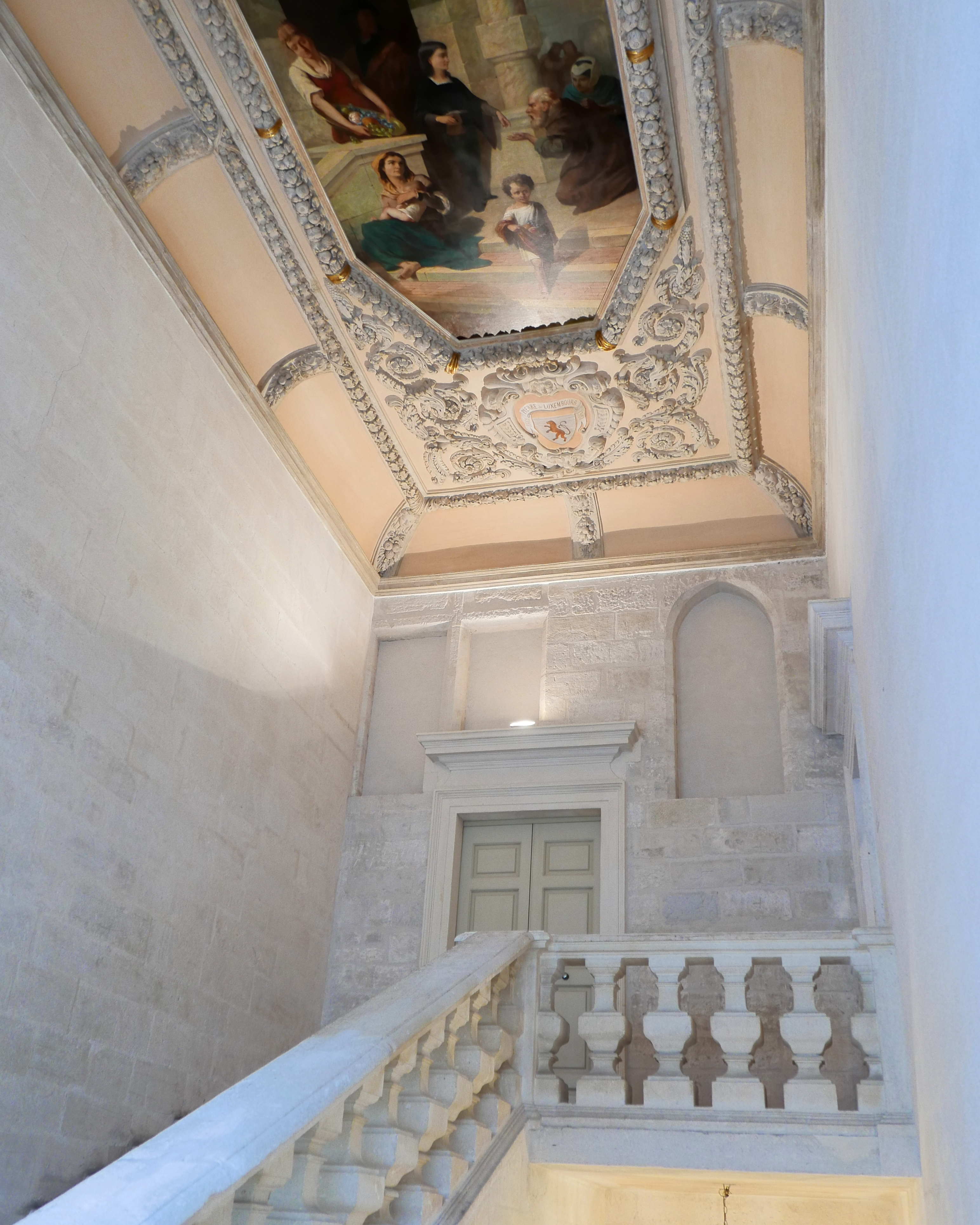 Villeneuve-lès-Avignon (Gard, Languedoc, France), Pierre de Luxembourg private mansion; 14th century cardinal archiepiscopal palace deeply altered in the 17th century.